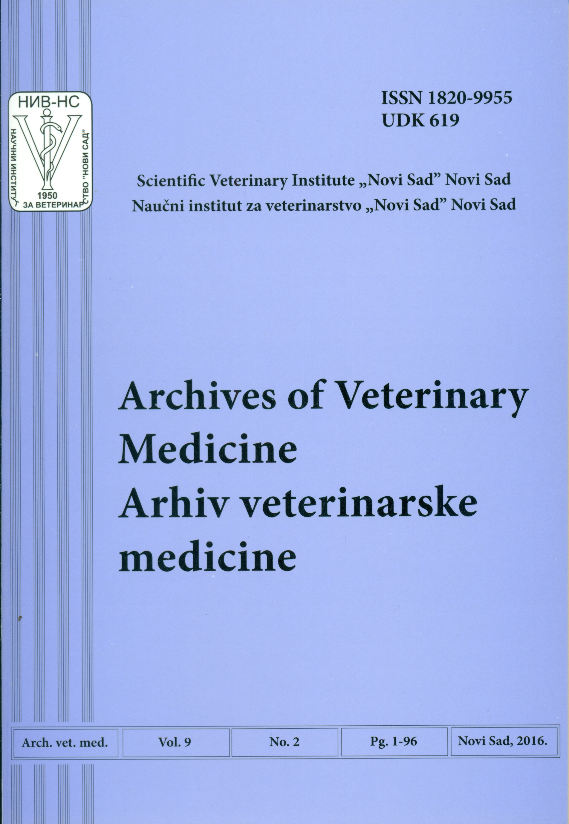 Cover of journal Аrhiv veterinarske medicine, 2016, Novi Sad, Serbia